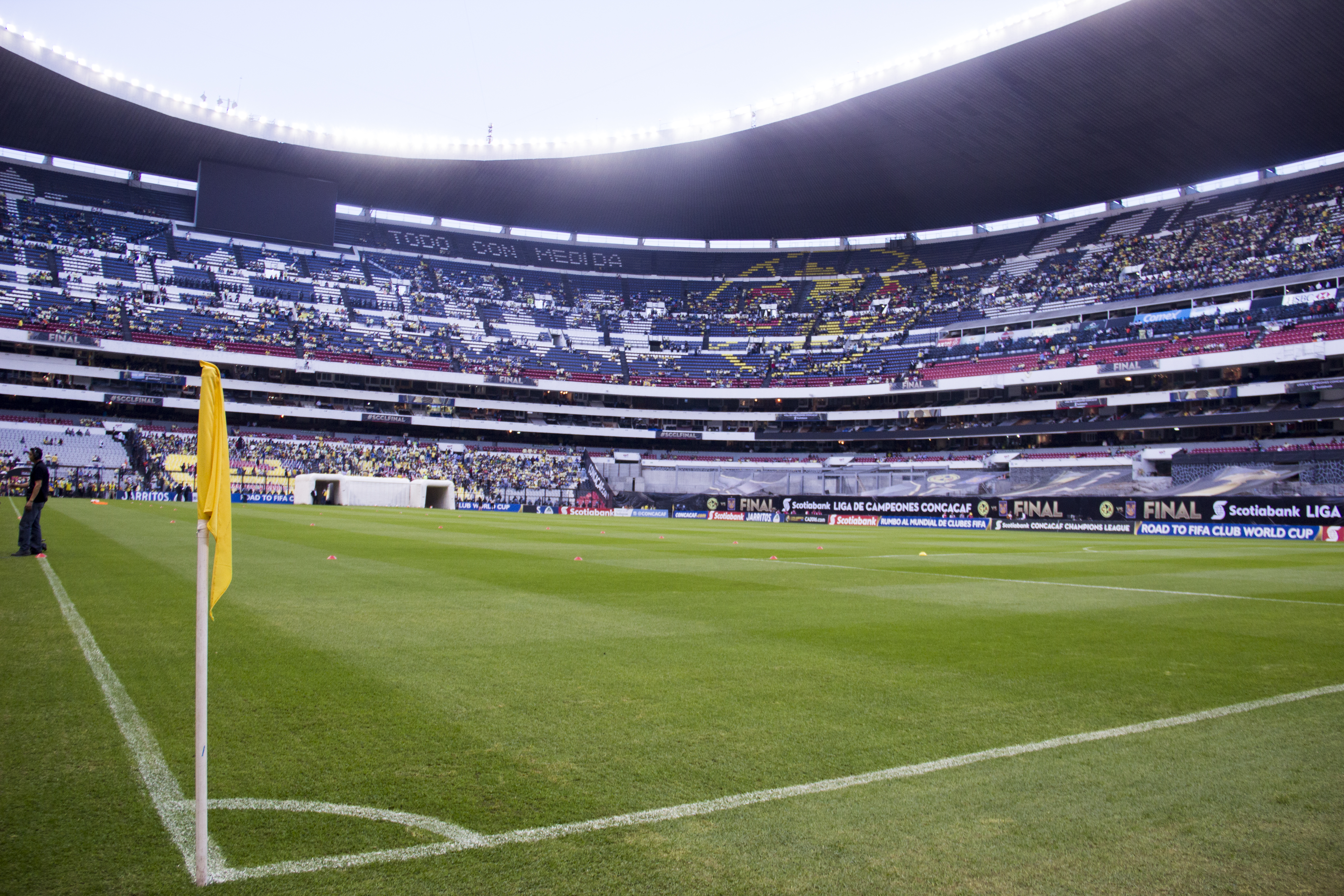 Final CONCACAF 2016